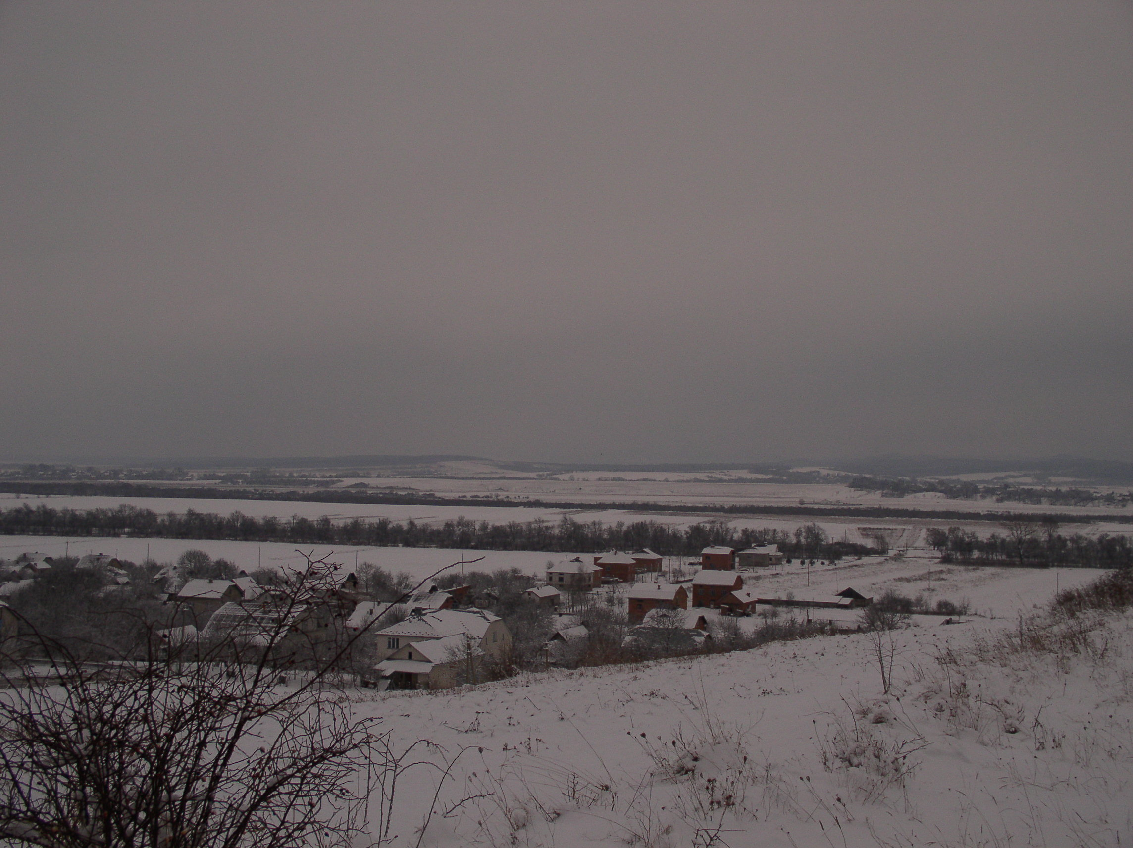 Зроби нам, бабусю, ласку і розкажи якусь казку